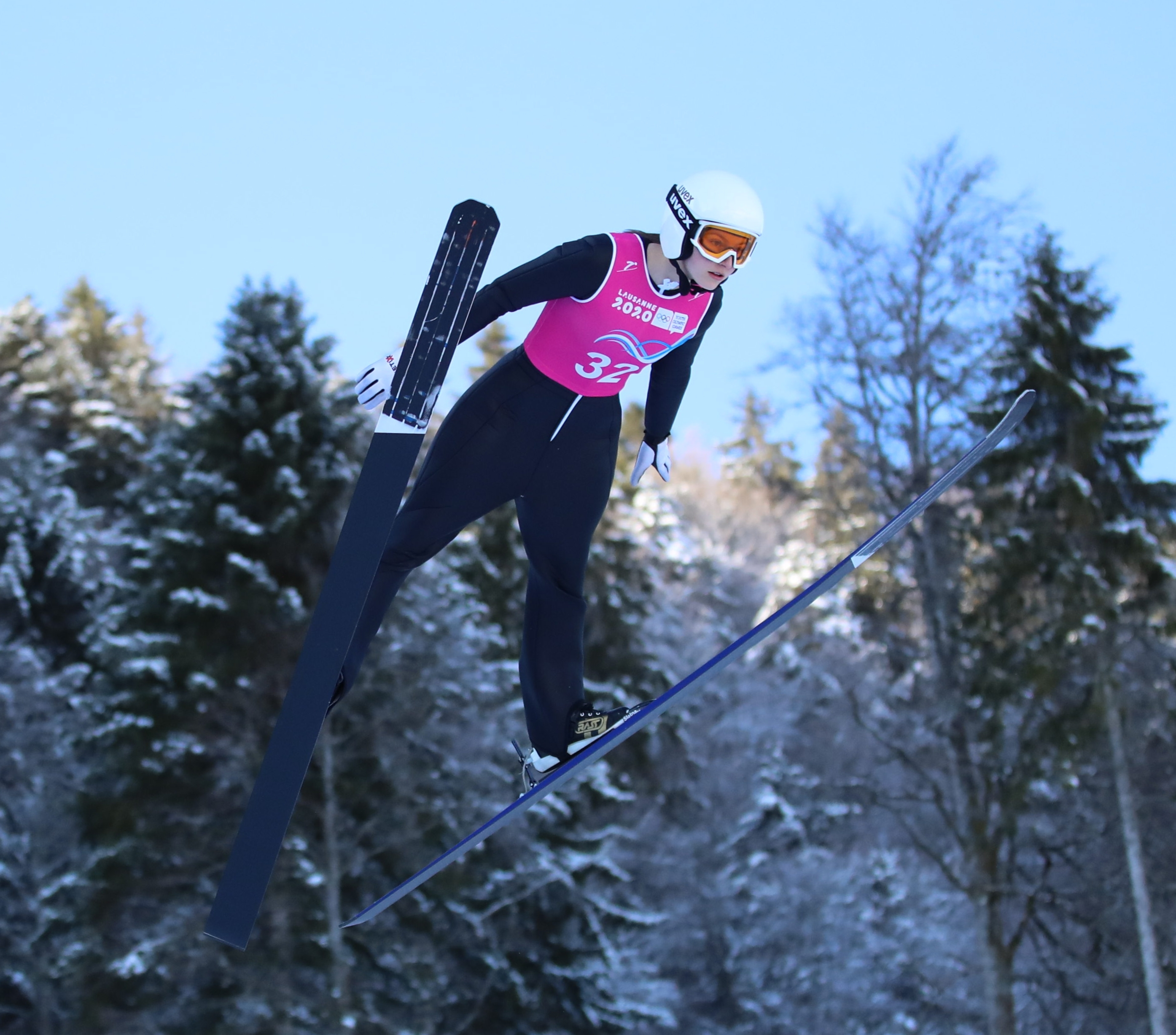 1st Round of Ski jumping – Women's Individual at the 2020 Winter Youth Olympics in Lausanne on 19 January 2020.